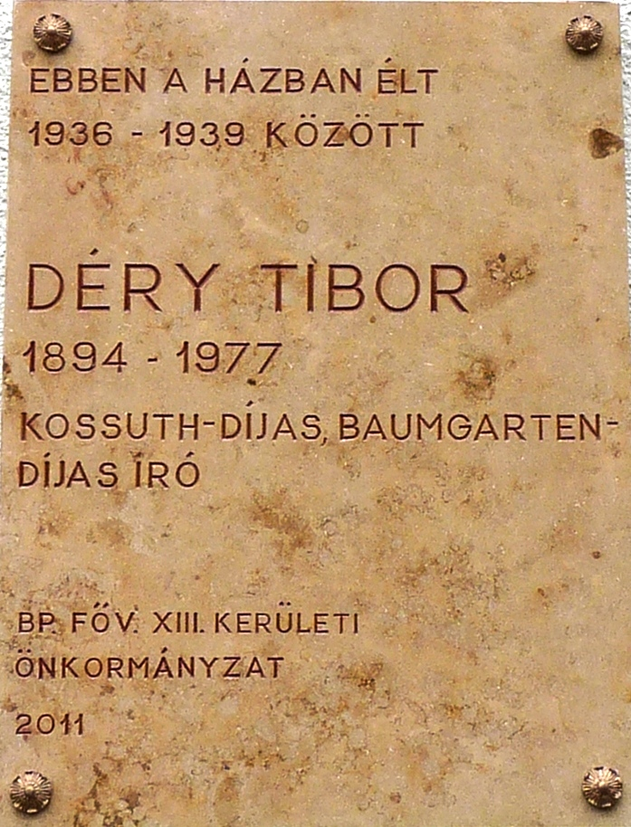 Commemorative plaque to Mr. Tibor Déry (1894–1977) Hungarian Writer and Poet. It is affixed on the wall of his former home where he lived and worked between 1936 and 1939. It was unveiled on April 11, 2011 to mark the Day of Hungarian poetry. (Budapest, District XIII, Jászai Mari Square Nr 5).